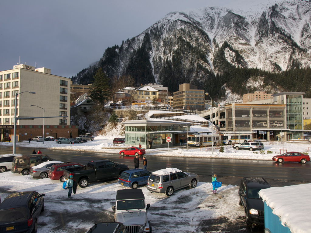 Juneau, Main St Transit Center and parking garage